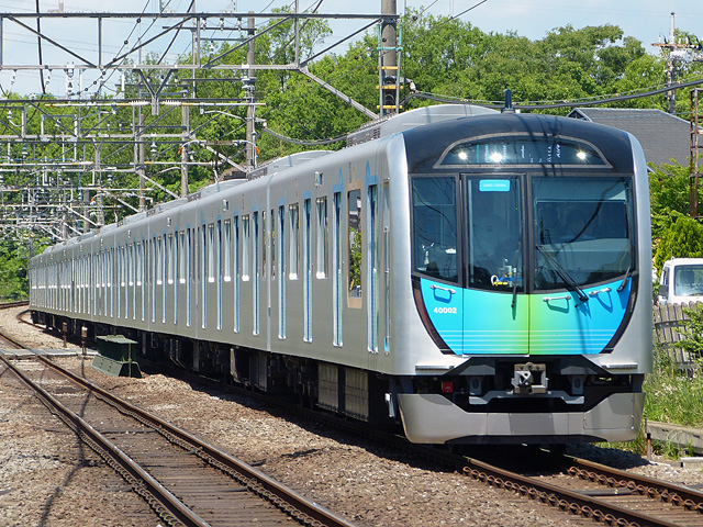 Seibu 40000 series EMU set 40102 approaching Akitsu Station on the Seibu Ikebukuro Line